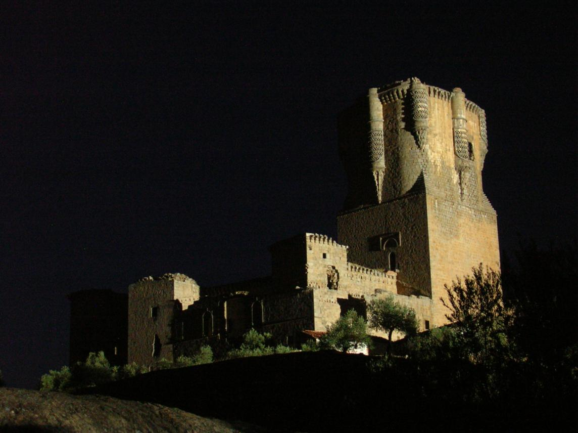 castillo de los sotomayor y zuñiga condes de Belalcazar. en belalcazar (cordoba)